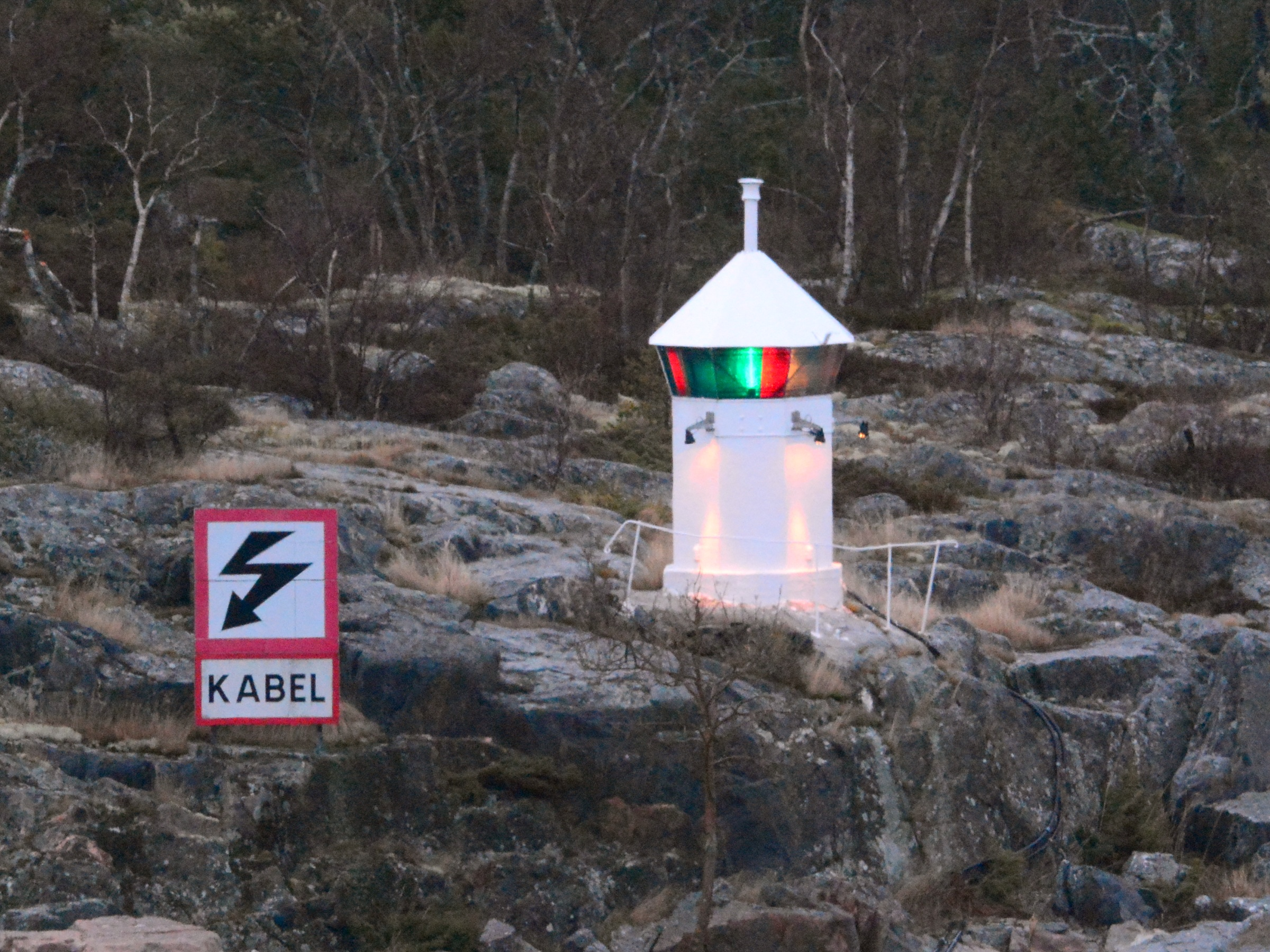 Lighthouse Botveskär in Stockholm archipelago